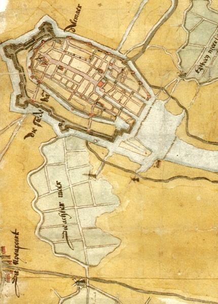 The Achtermeer is a polder near the city of Alkmaar, the oldest known polder of the world (1533). Together with other nearby polders it was flooded to drive out the Spanish army that besieged Alkmaar in the Eighty Years' War. Alkmaar was liberated.